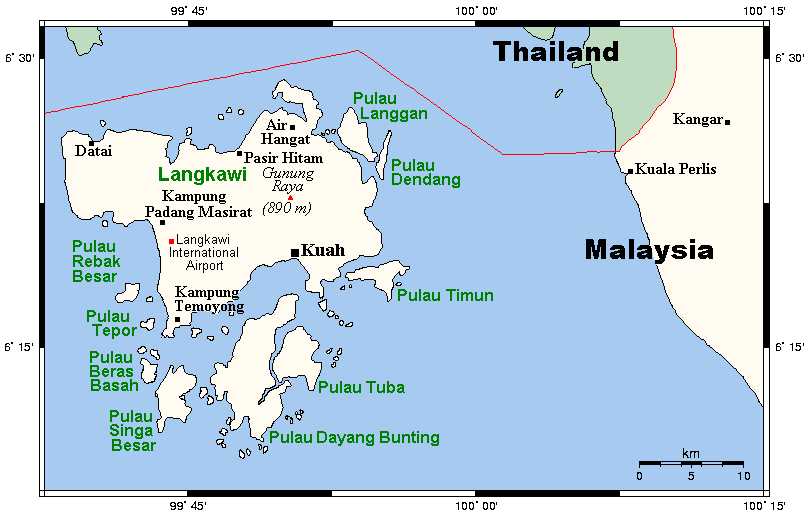 Langkawi, Kedah, Malaysia and nearby areas in Malaysia and Thailand. This map's source is here, with the uploader's modifications, and the GMT homepage says that the tools are released under the GNU General Public License.